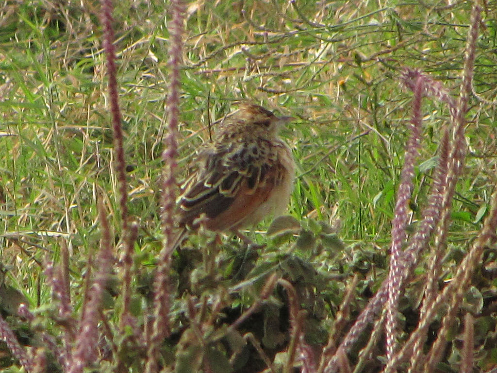 Rufous-naped Lark (Mirafra africana), adult, Ngorongoro Crater, Tanzania